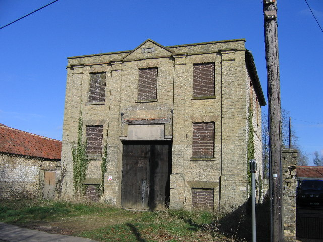 Primitive Methodist Chapel, Northwold. Built in 1843, now disused.